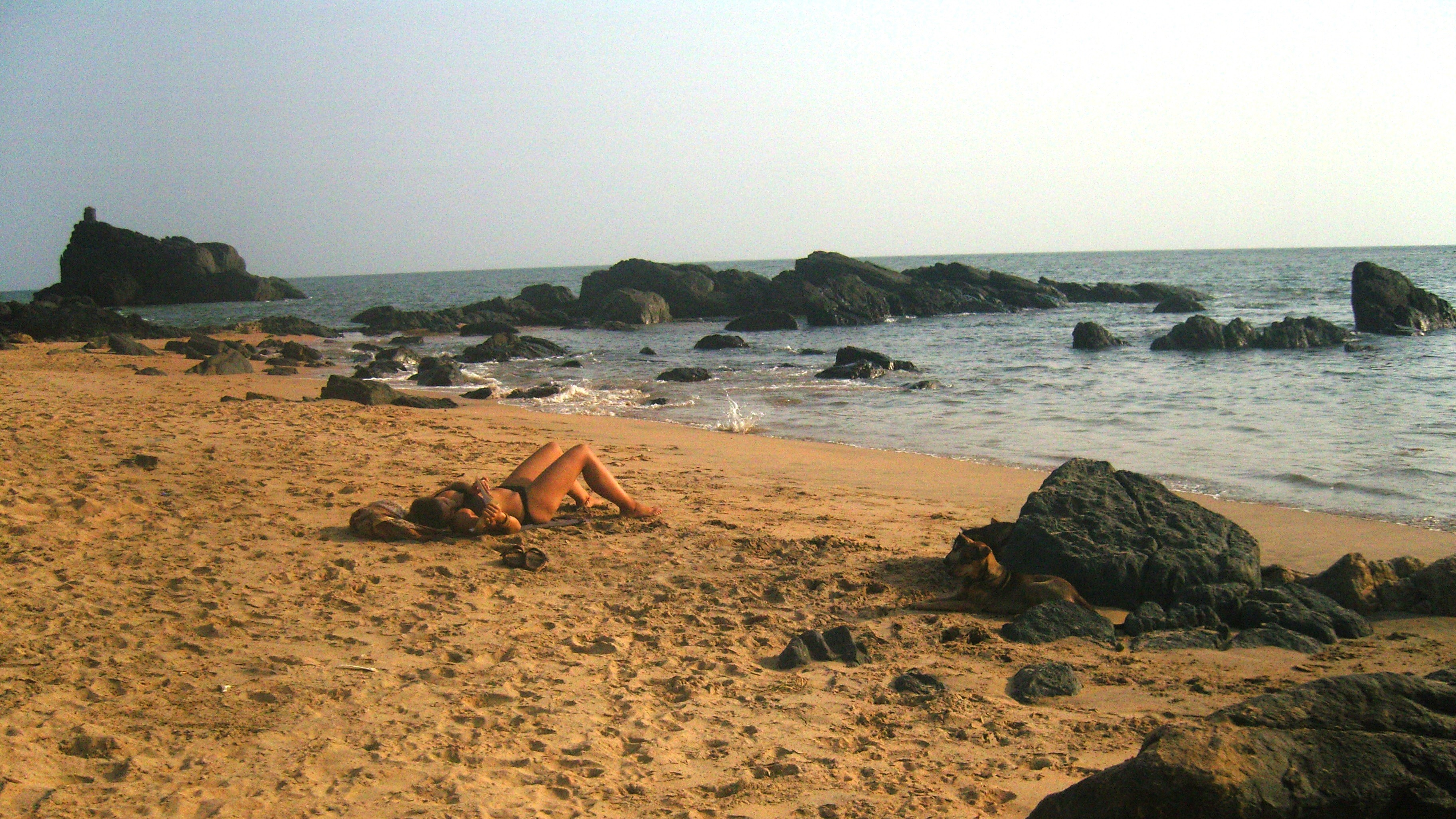 A lady sunbathing in om beach